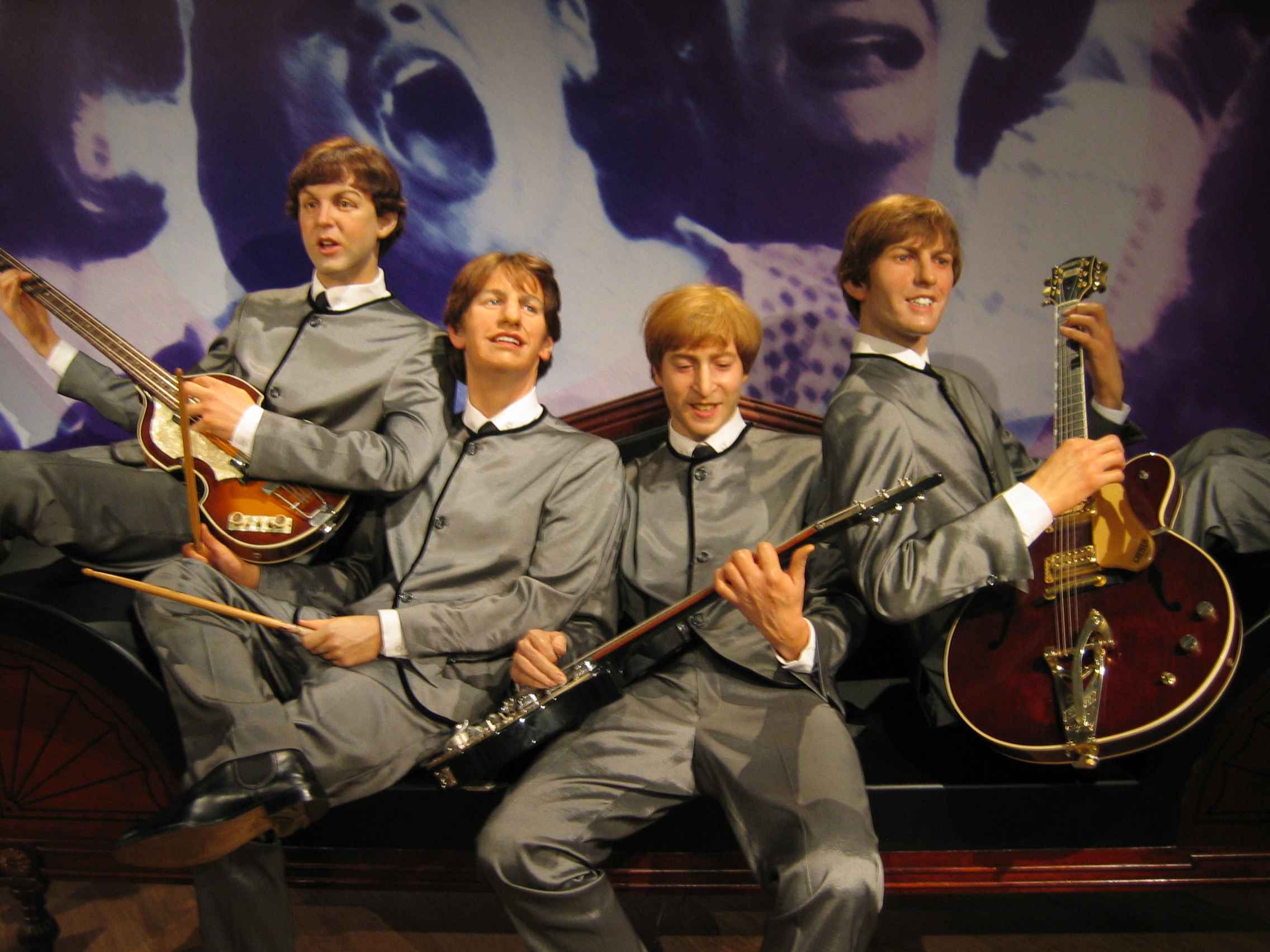 The beatles Statues